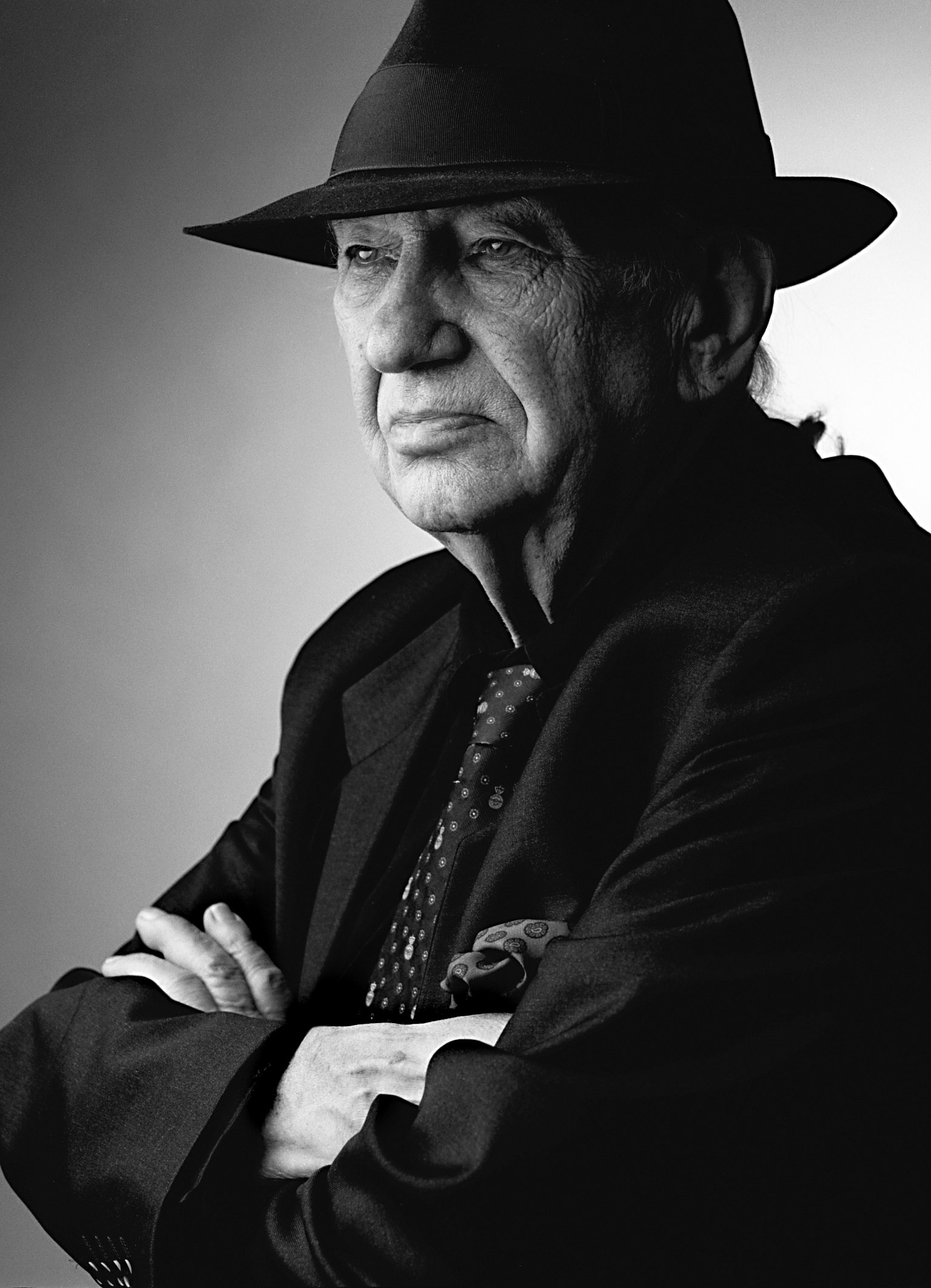 German Barpianist, Munich, Germany